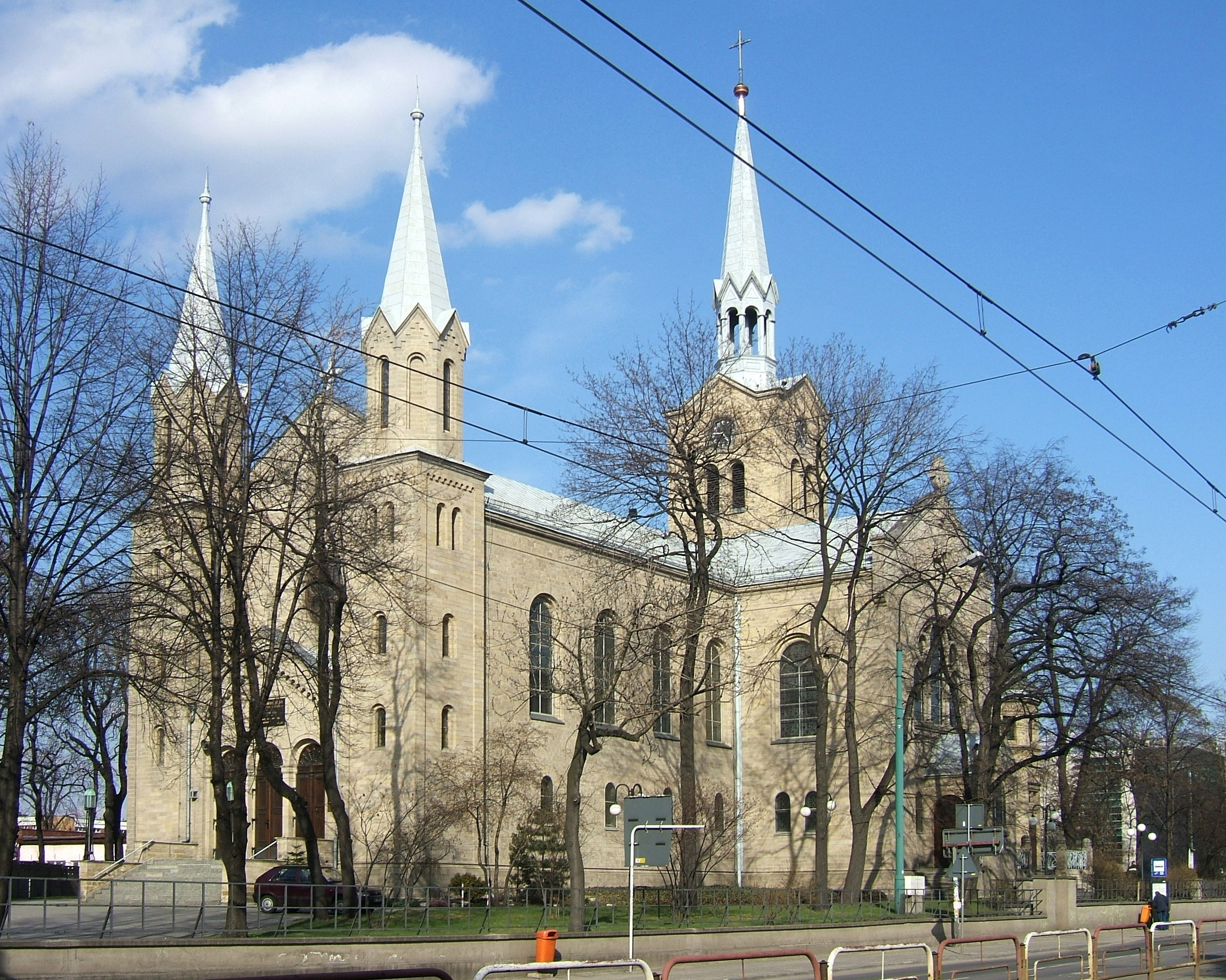 The protestant church in Katowice is the oldest church in Katowice an was built from 1856 to 1858 by the architect Richard Lucae. Since then there have been two rebuildings (1887-1889 and 1899-1902).